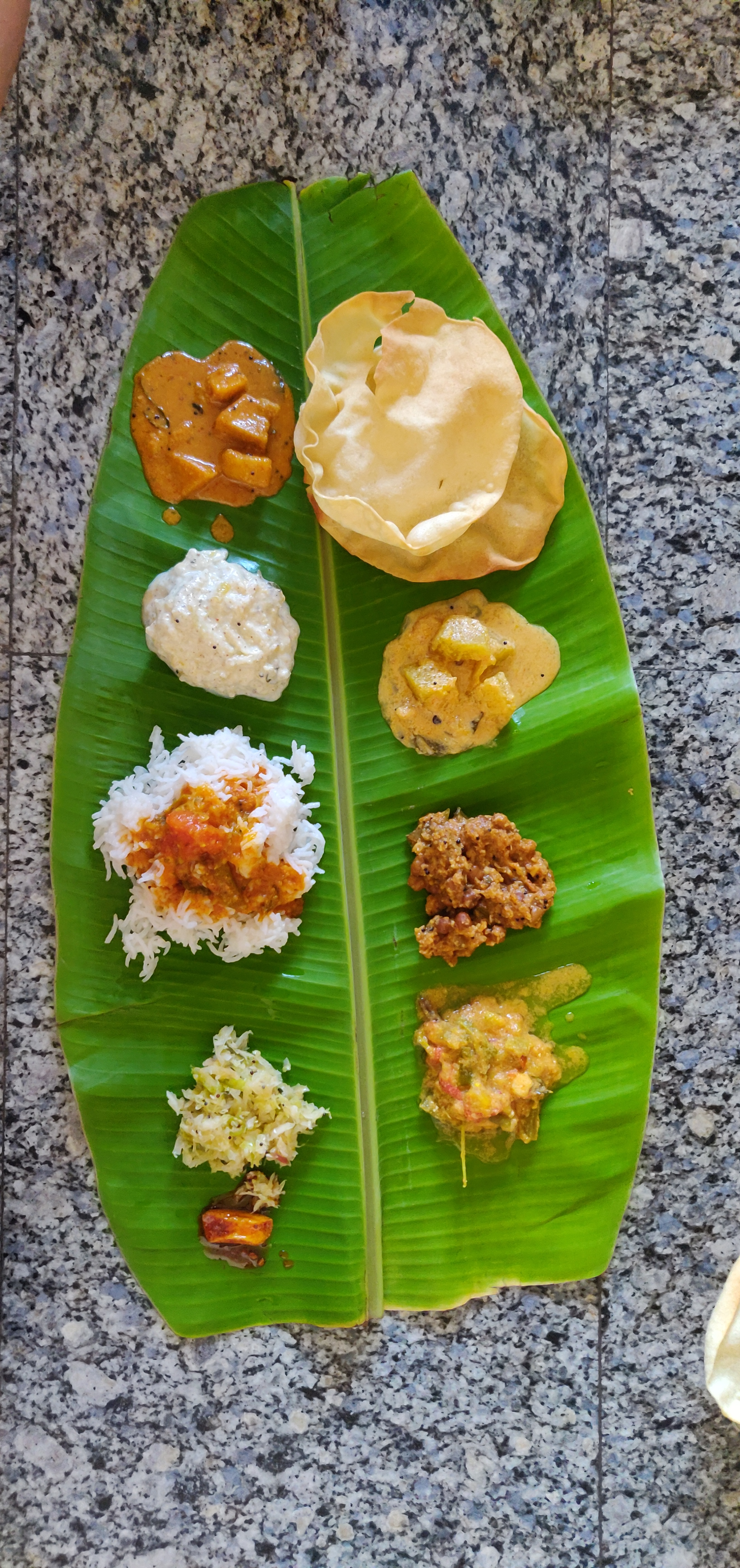 This photo has been taken in the country: India